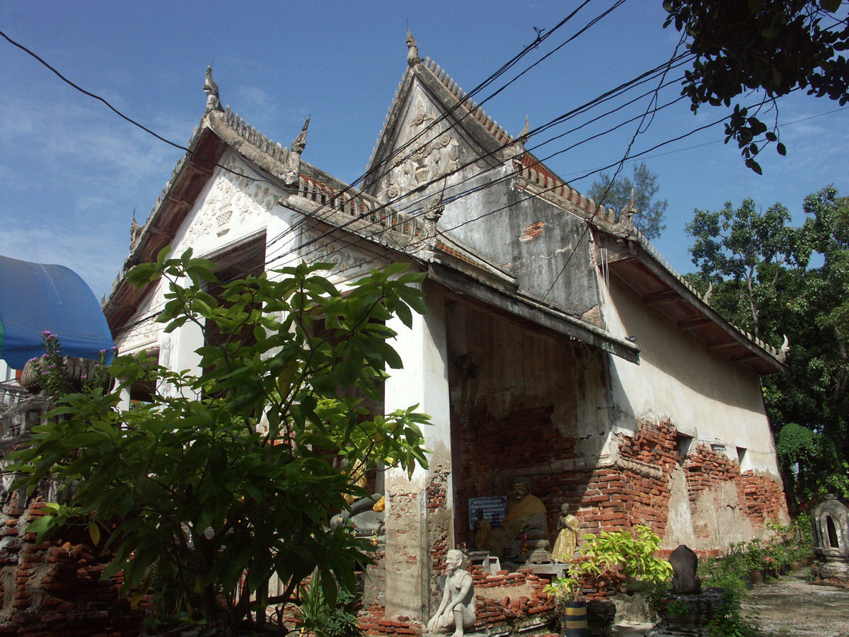 The old ubosot of Wat Chalo